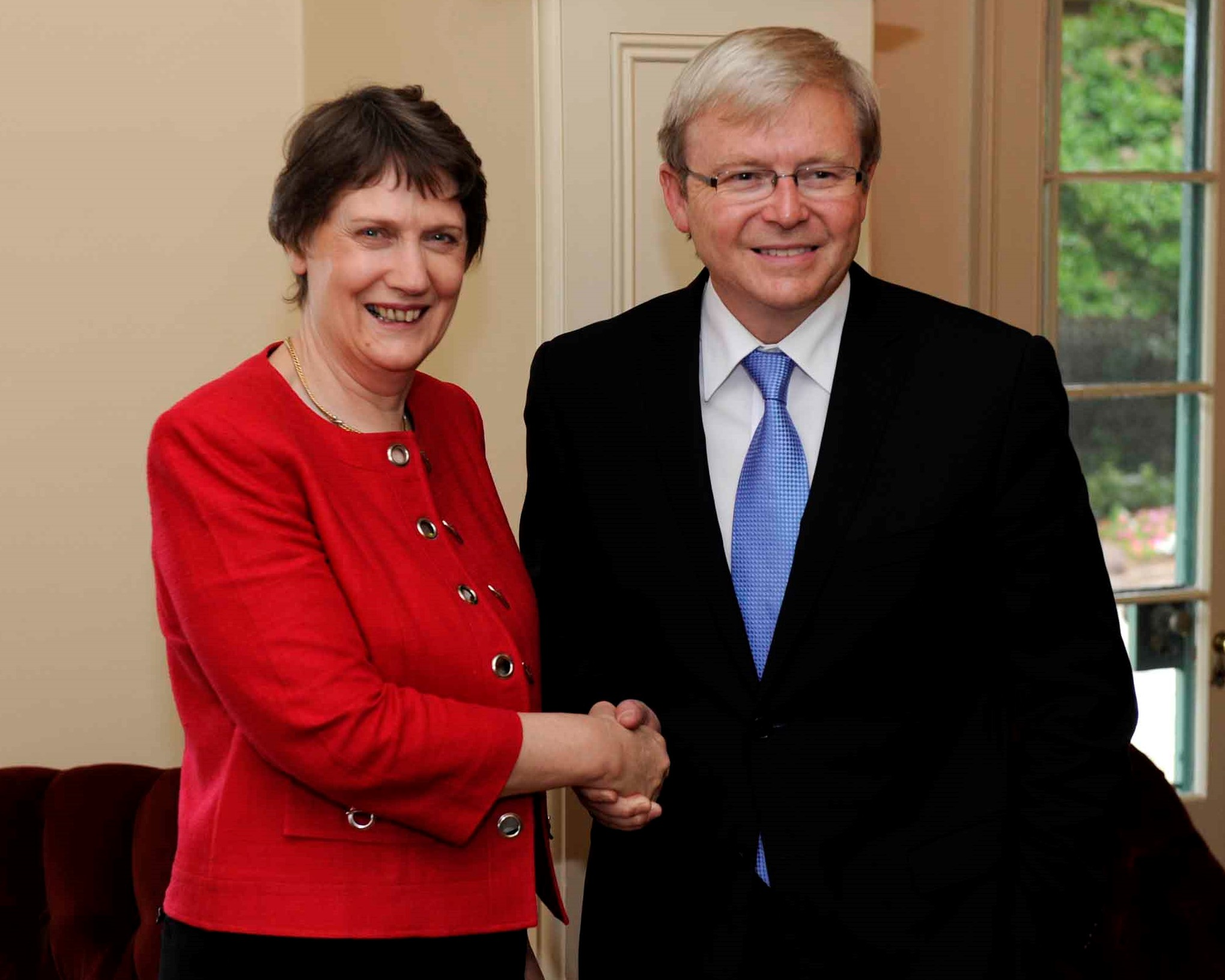 Australian Prime Minister Kevin Rudd meets with United Nations Development Programme Administrator Helen Clark.